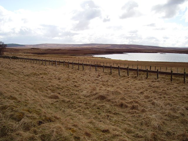 Loch an Ruathair. Looking towards the outflow, over the railway to Caithness.